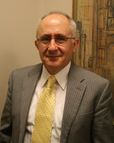 Professor Taner Akçam (Photo: Rupen Janbazian)